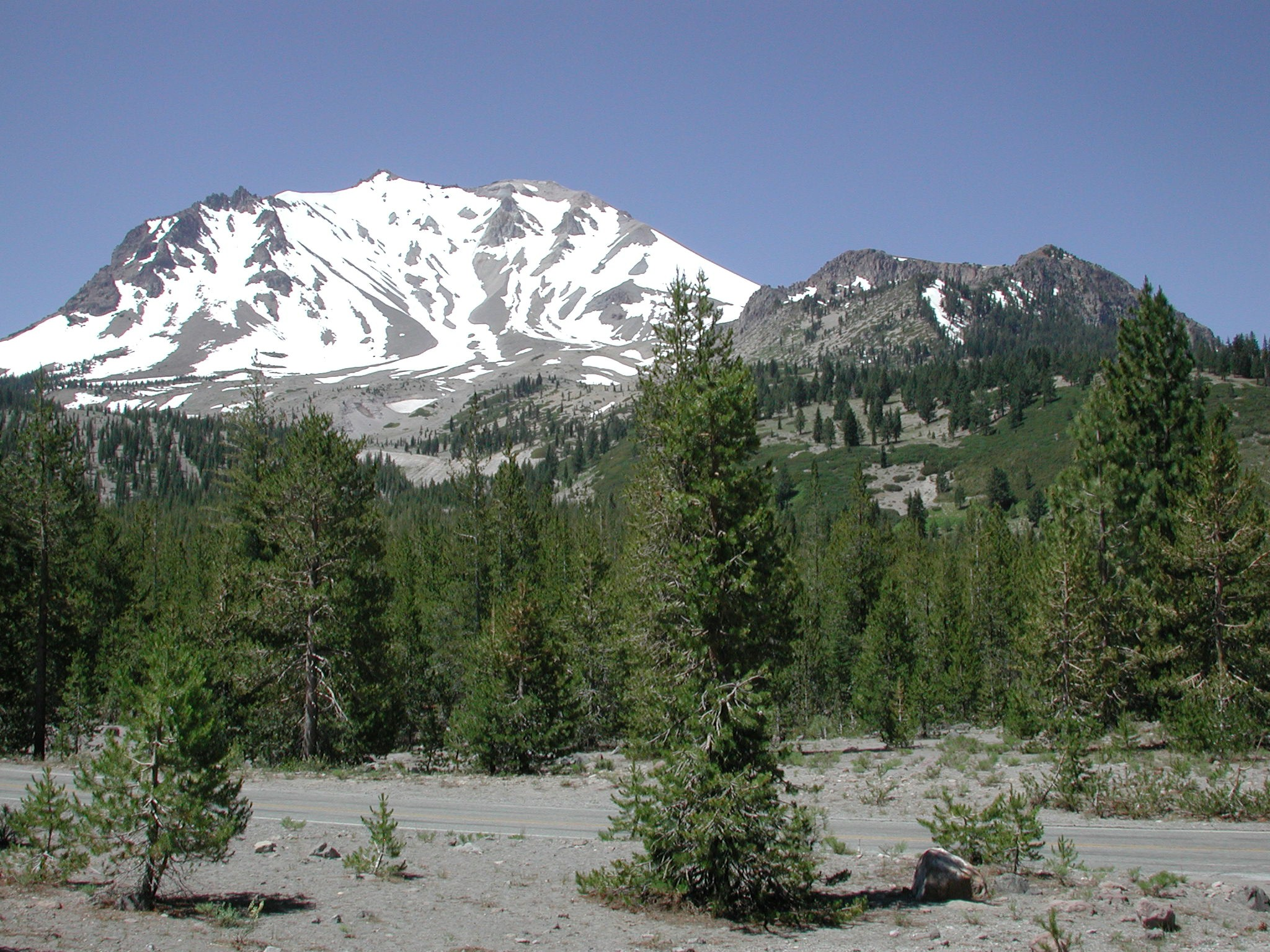 Viewed from the Devastated Area